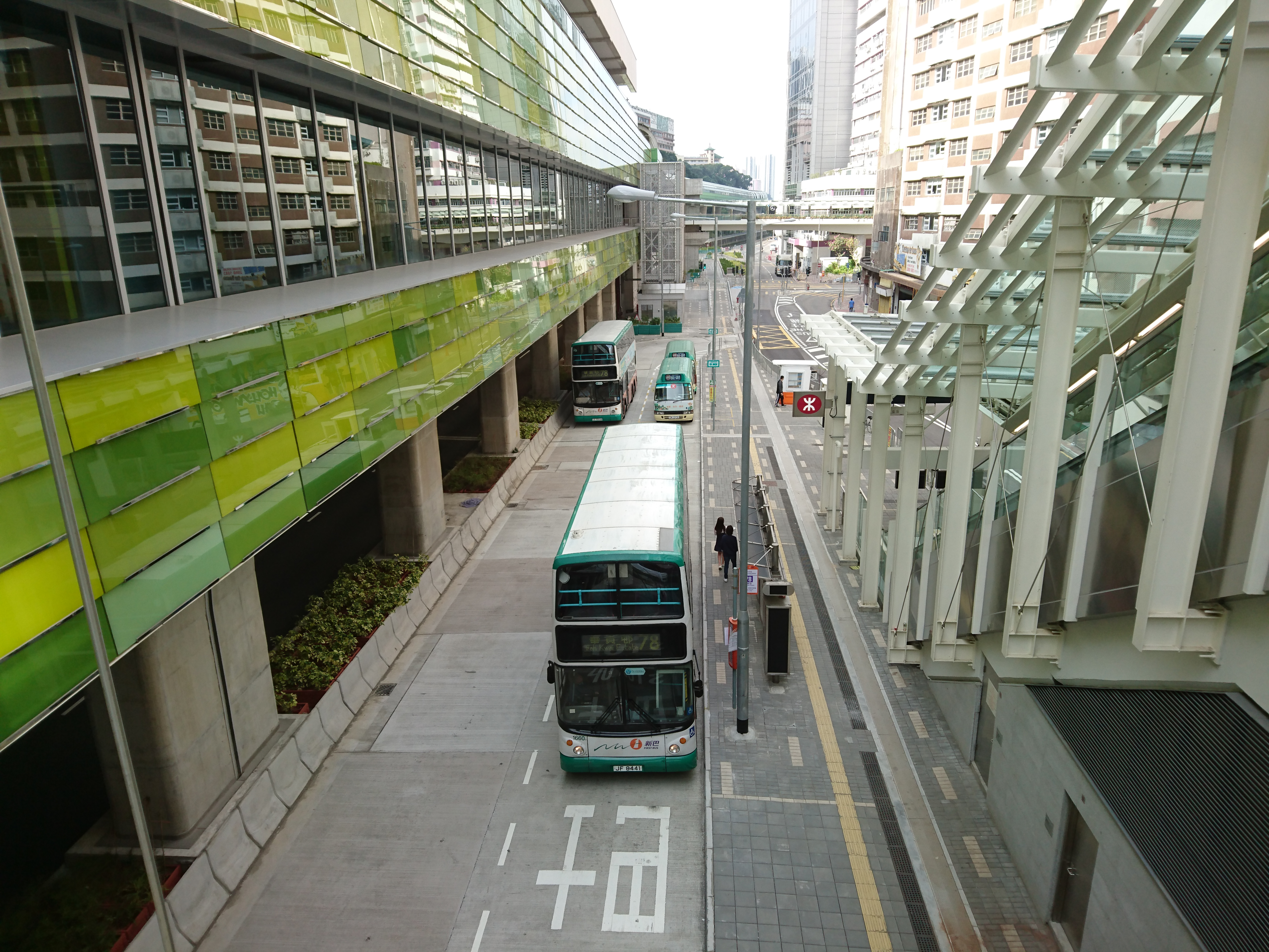 Wong Chuk Hang Station Bus Stops near Exit A1